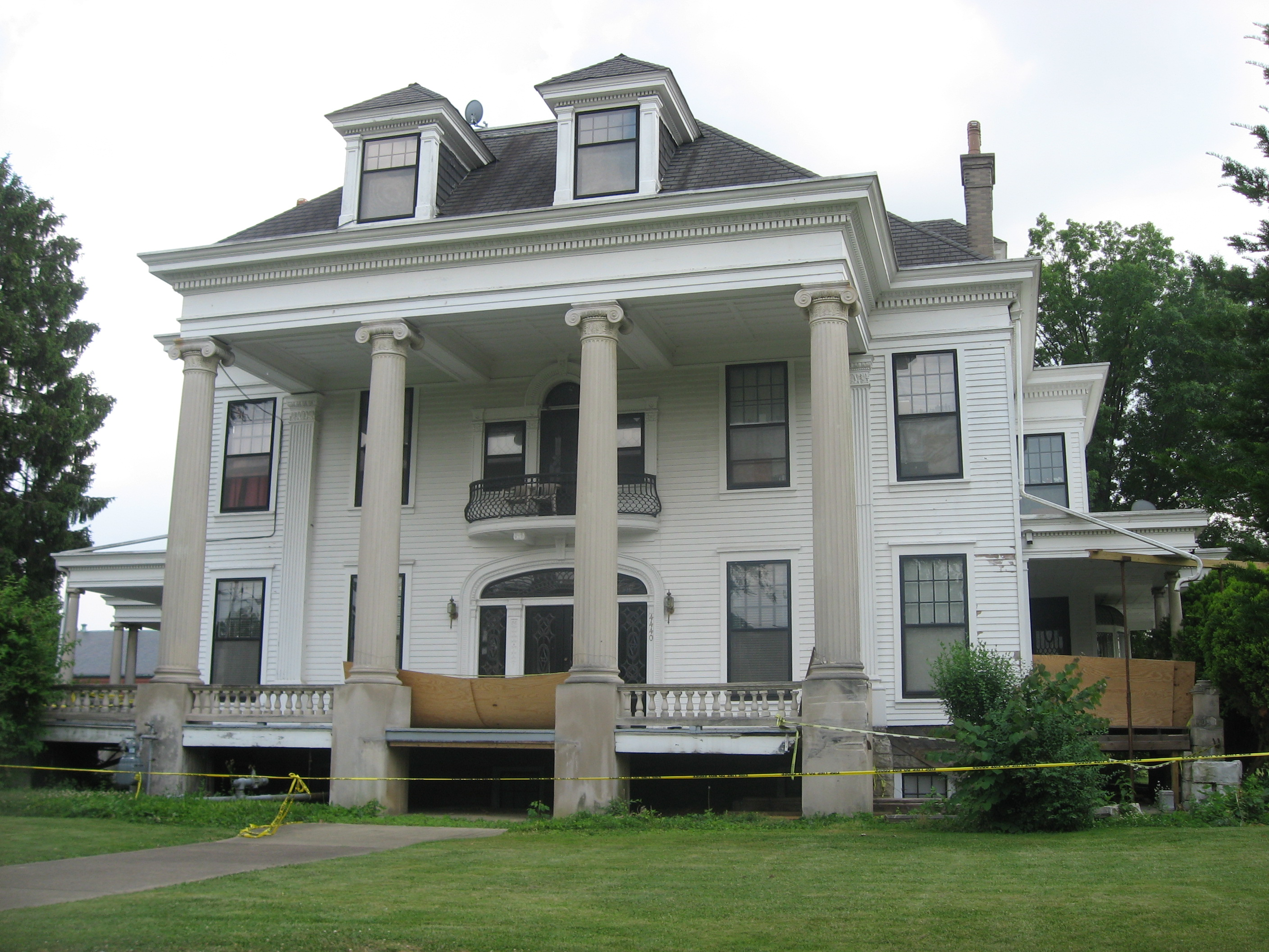 Front of the Basil Doerhoefer House, located at 4432 W. Broadway in Louisville, Kentucky, United States. Built in 1902, it is listed on the National Register of Historic Places.